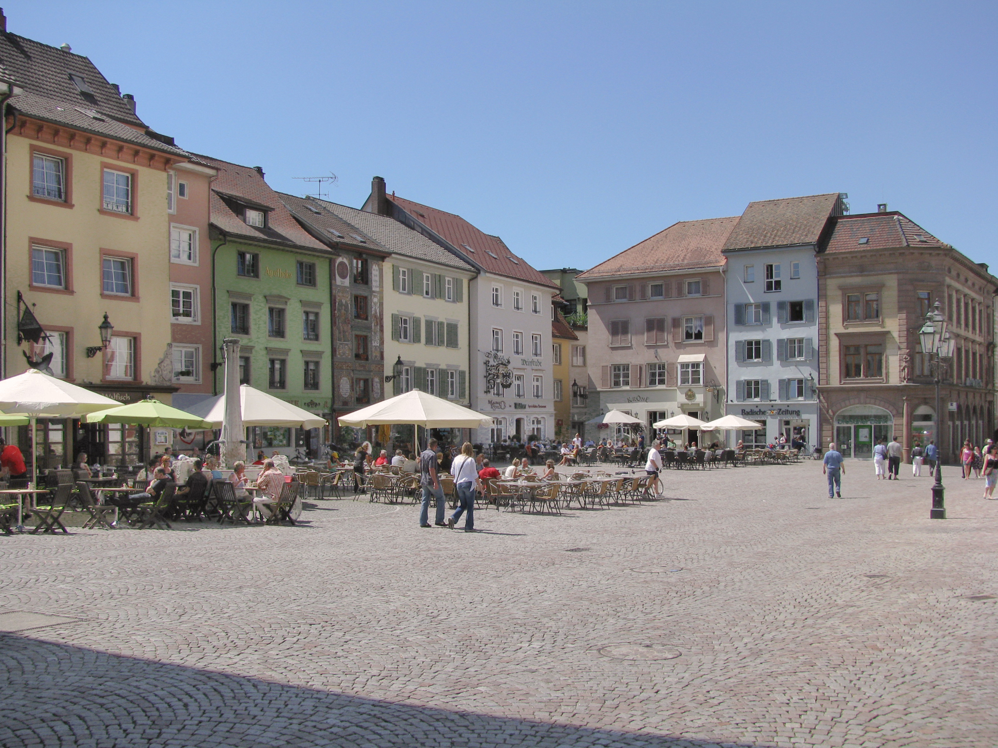 The «Münsterplatz» in Bad Säckingen